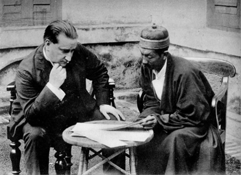 Sir Edward Denison Ross & Lama Lobzang